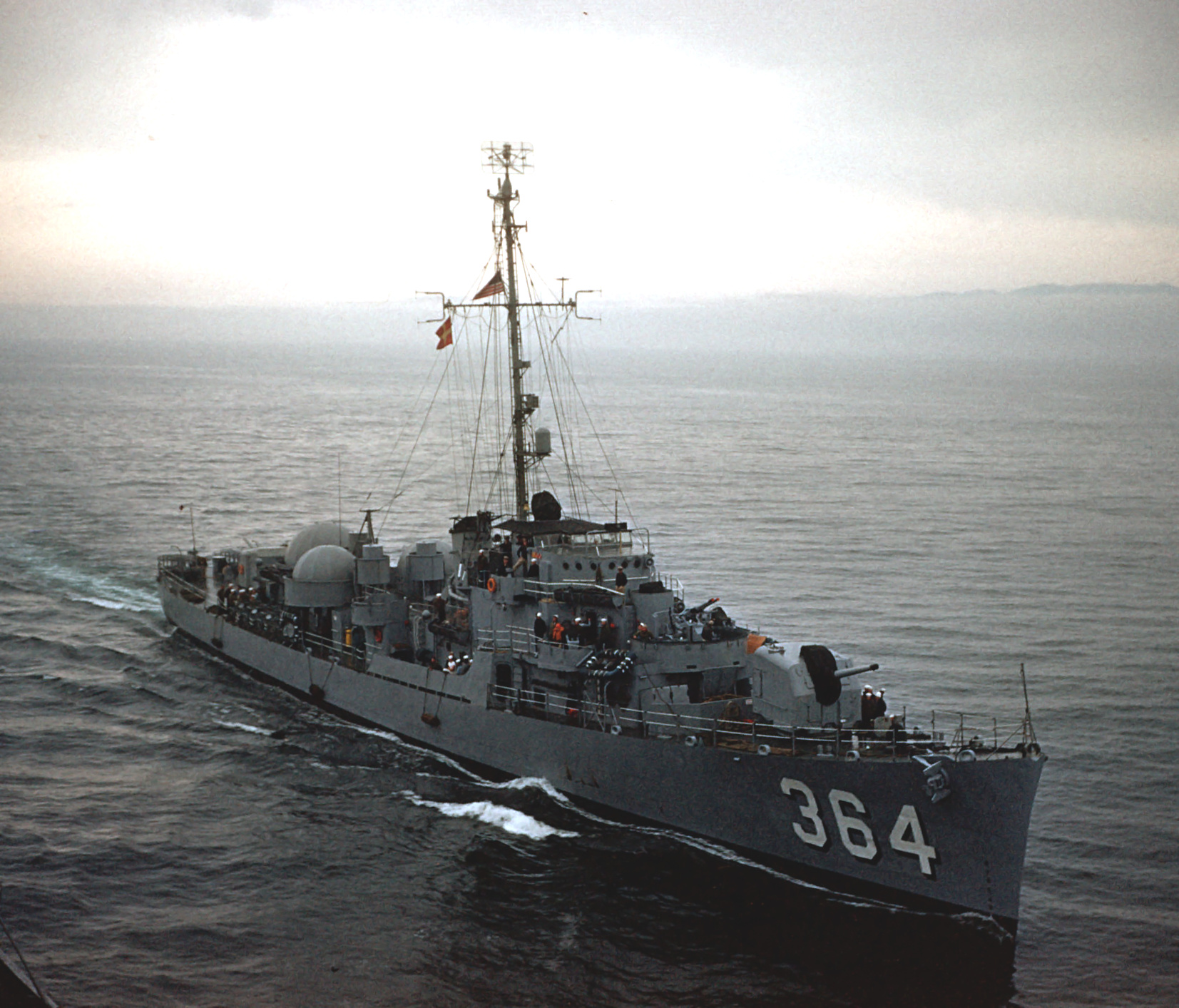 The U.S. Navy destroyer escort USS Rombach (DE-364) underway in the Pacific Ocean during exercises, in 1954.